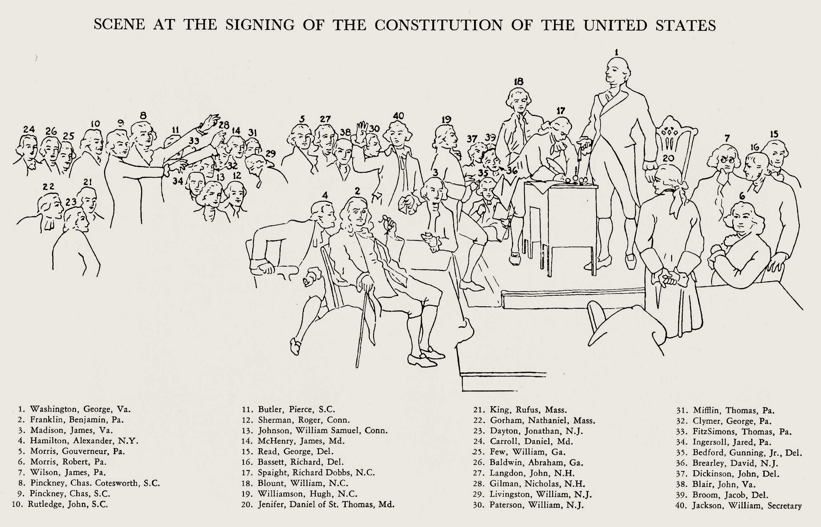 A key identifying the subjects of Howard Chandler Christy's 1940 painting Scene at the Signing of the Constitution of the United States, a well-known work which hangs in the United States Capitol building (purchased from the painter in 1819)